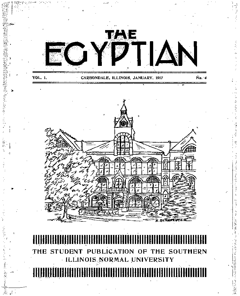 Cover page of The Egyptian, January 1917. Student newspapers from Southern Illinois University.